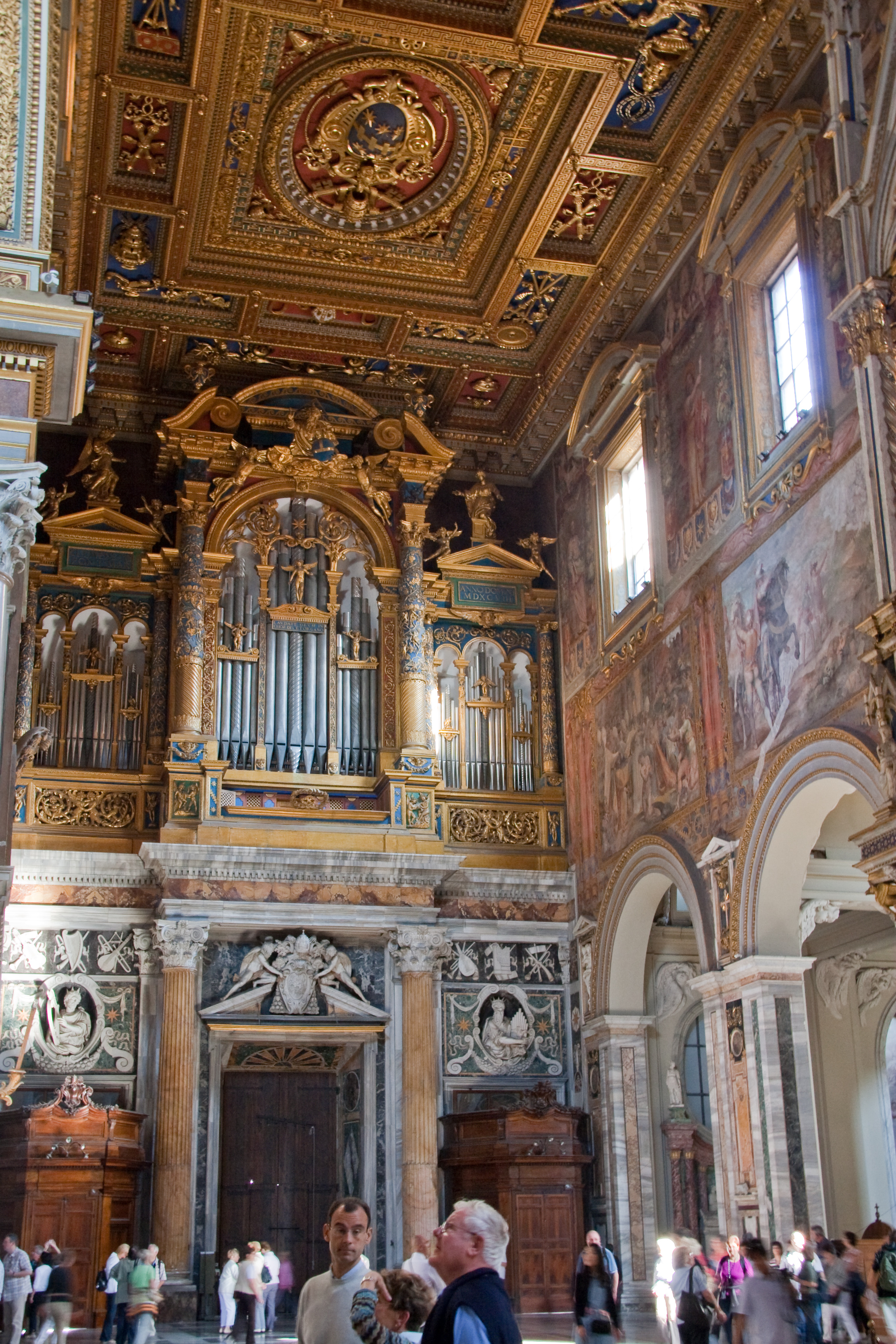 San Giovanni in Laterano is the cathedral church of Rome. 41°53′9.26″N 12°30′22.16″E / 41.8859056°N 12.5061556°E